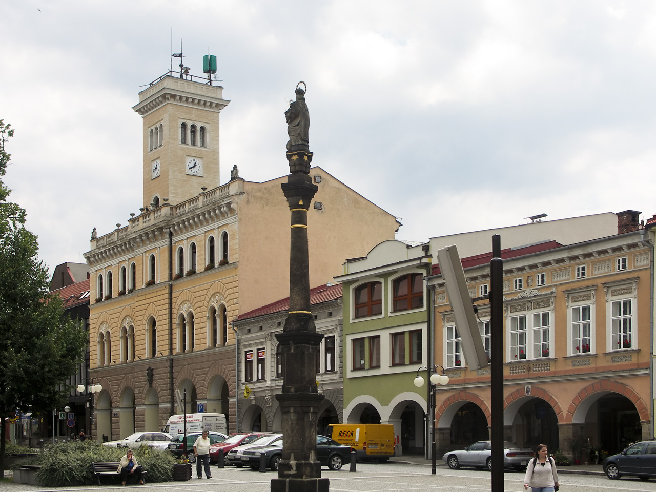 Central square in Frenštát pod Radhoštěm, the Czech Republic, with the town hall